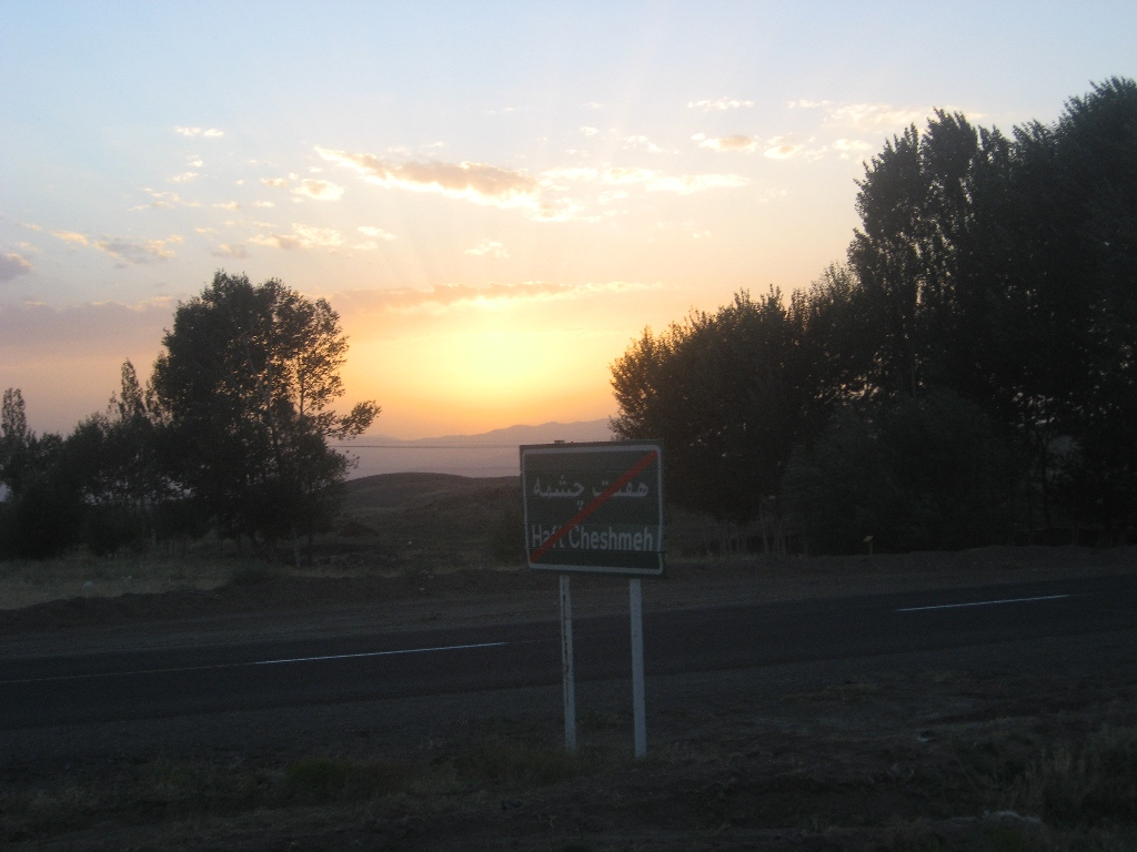 غروب روستا